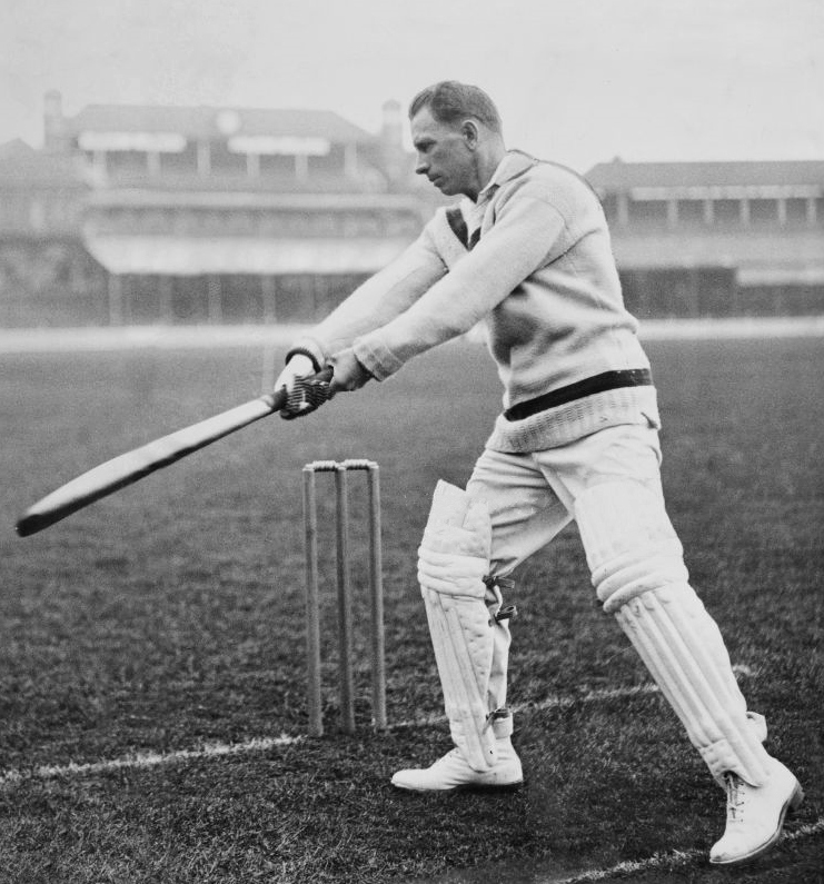 The captain of the South Africa cricket team Herbie Taylor practising at the Kennington Oval in London, 29th April 1924.